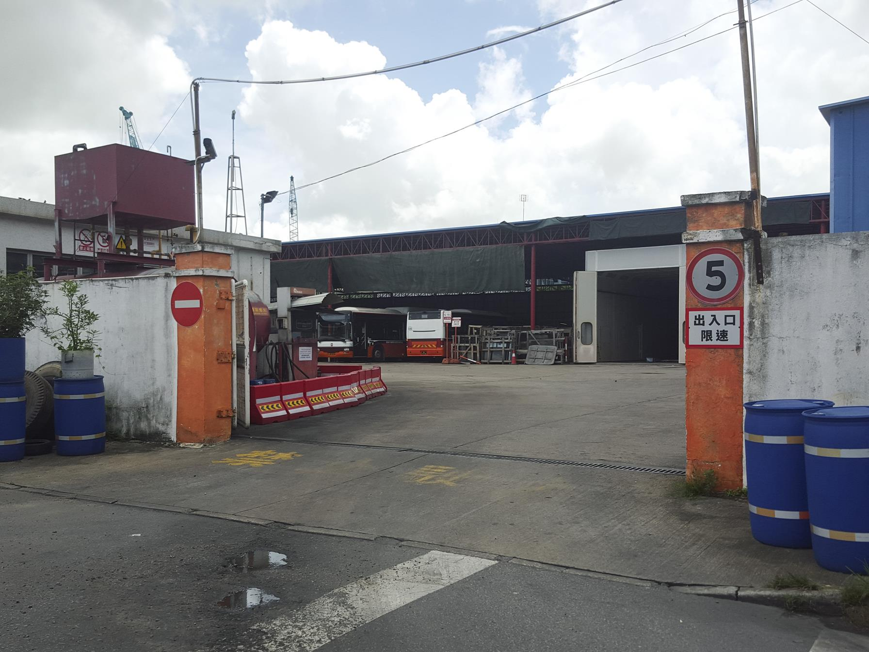 TCM Bus Depot